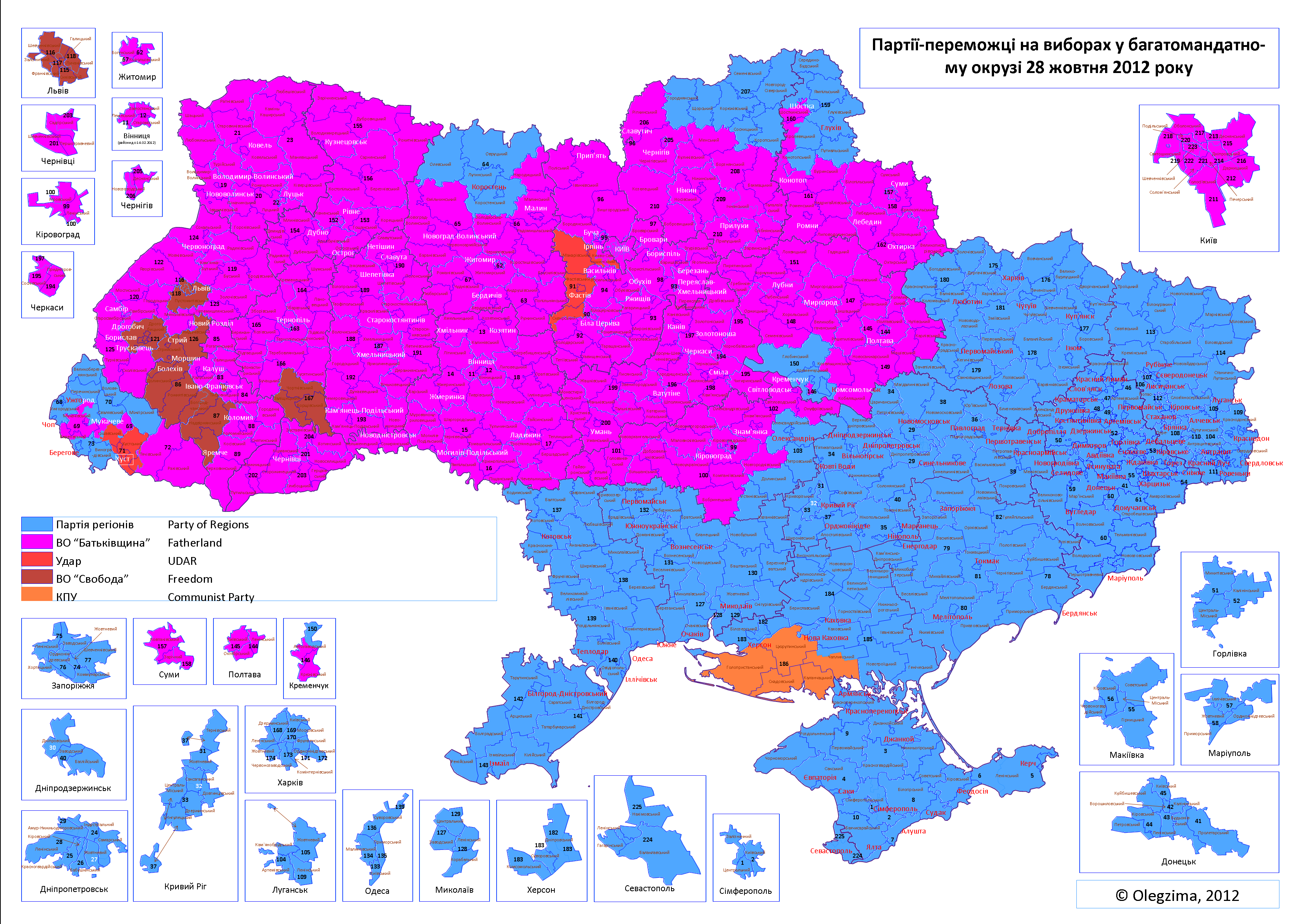 Party winning the elections in multi-member districts October 28, 2012